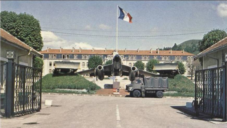 Garrison of the 15th Air Engineer Regiment at Ecrouves.